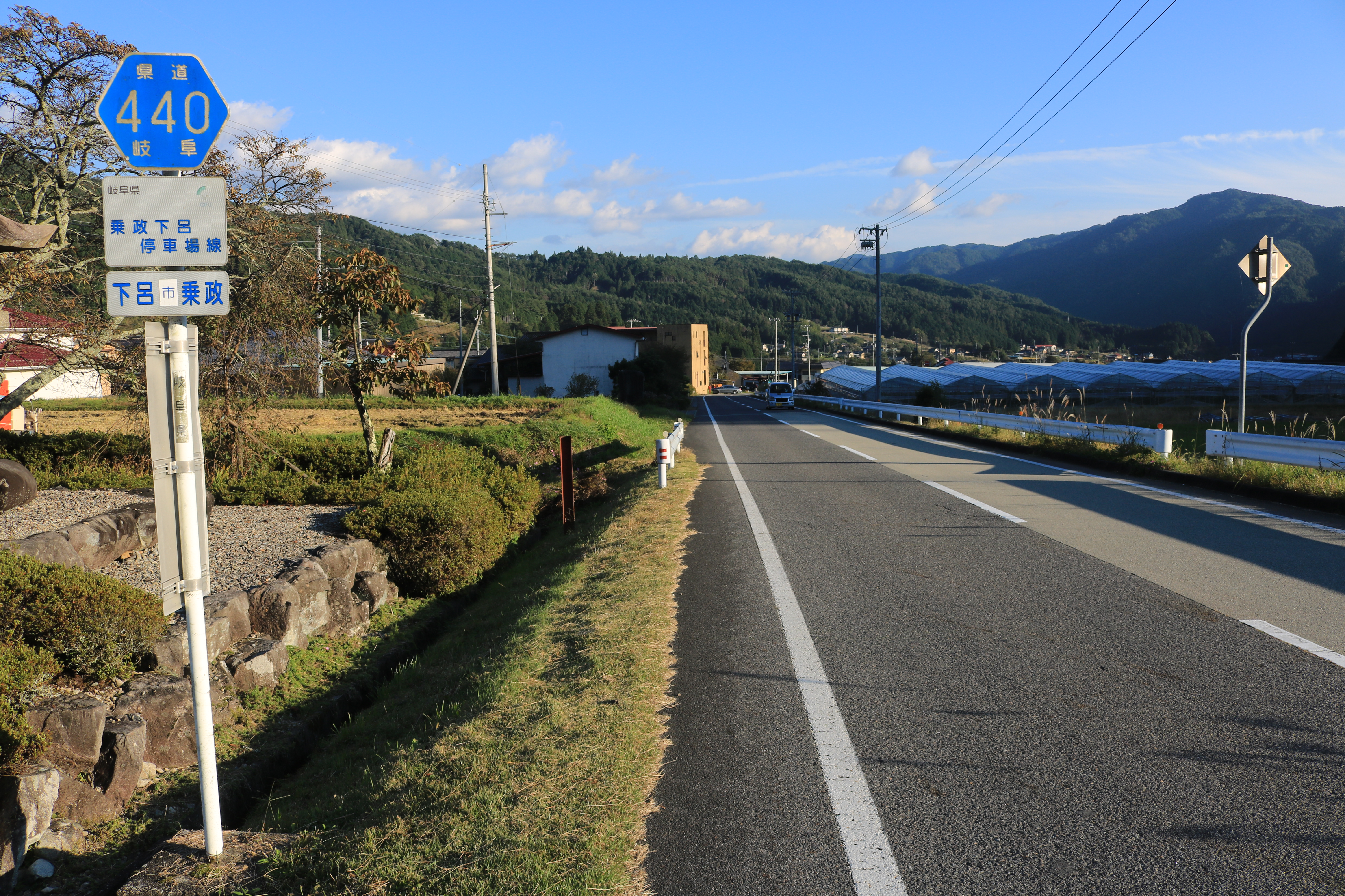 Gifu Prefectural Road Route 440 in Norimasa, Gero, Gifu prefecture, Japan.